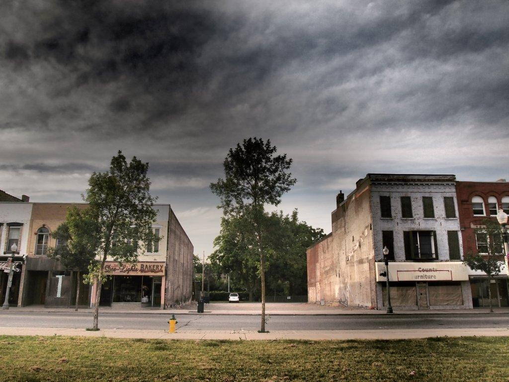 Where "The Capitol" used to stand.